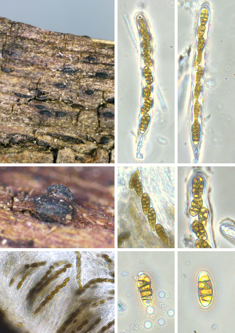 Lophiostoma compressum Oslo Herbarium 192126